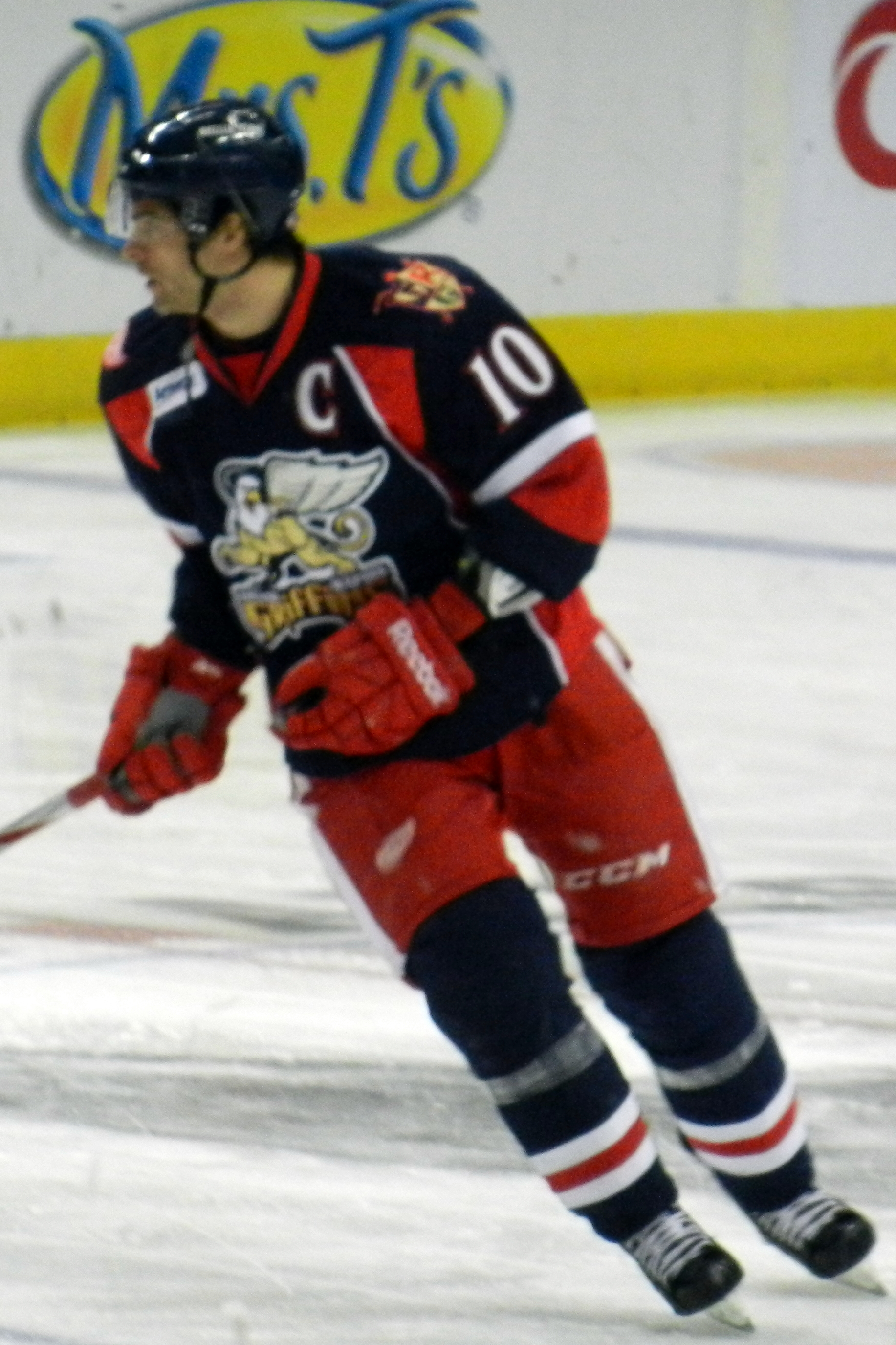 Jeff Hoggan playing for the American Hockey League's Grand Rapids Griffins